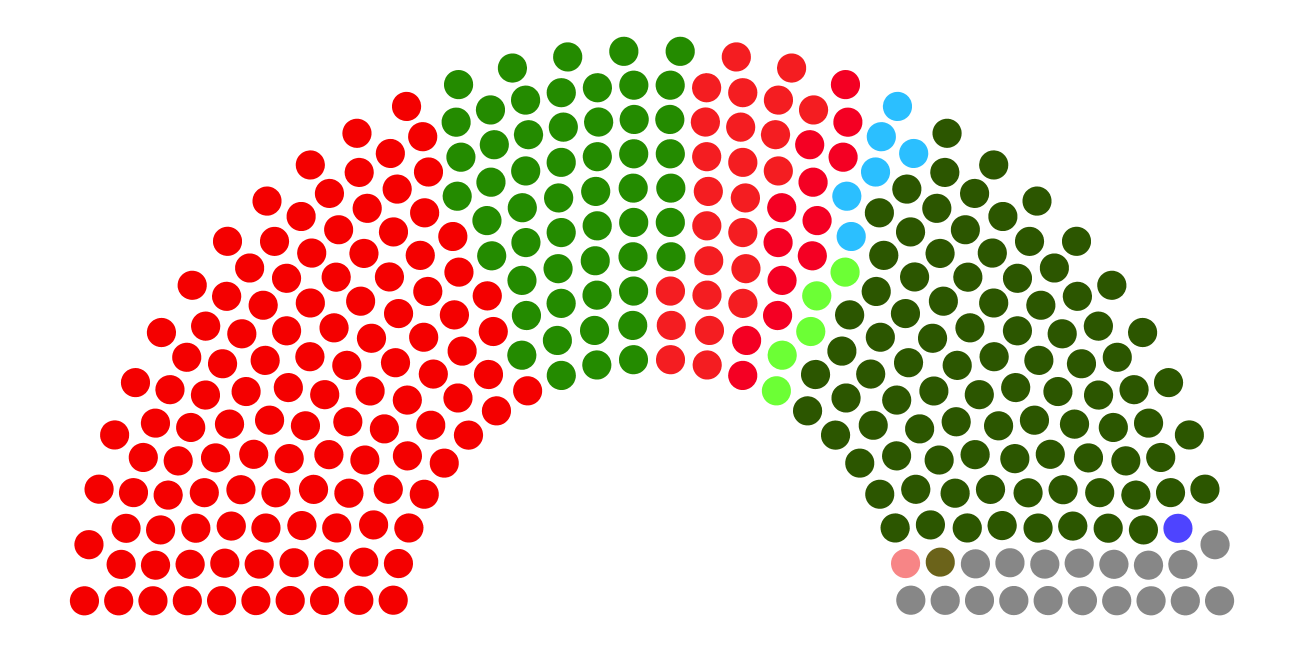 Structure Diagram of the National Assembly of Pakistan as of 2011-11-04